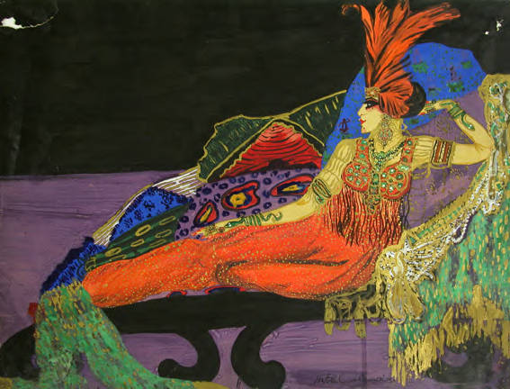 Drawing of Carmen Tórtola Valencia in a lounger